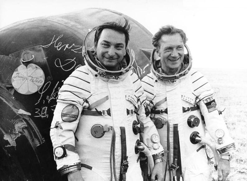 Landing of the astronomers Bykowski and Jähn ADN-ZB / Franke / September 5, 1978 / USSR: Cosmos / Soyuz 29 / Salut 6 / Soyuz 31 Lucky returned to Earth - the two cosmonauts Walery Bykowski (left) and Siegmund Jähn, who formed the third Interkosmos team. Here in front of the spaceship's return capsule Soyuz 29, in which they had soft-landed 140 km southeast of Dsheskasgan on September 3, 1978.